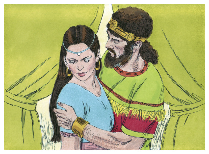 Biblical illustration of Second Book of Samuel Chapter 11